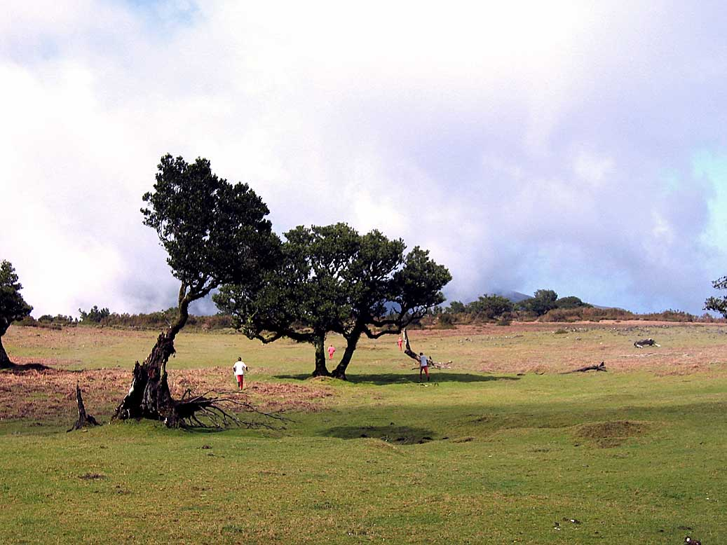 Madeira orienteering terrain, Fanal - 2005